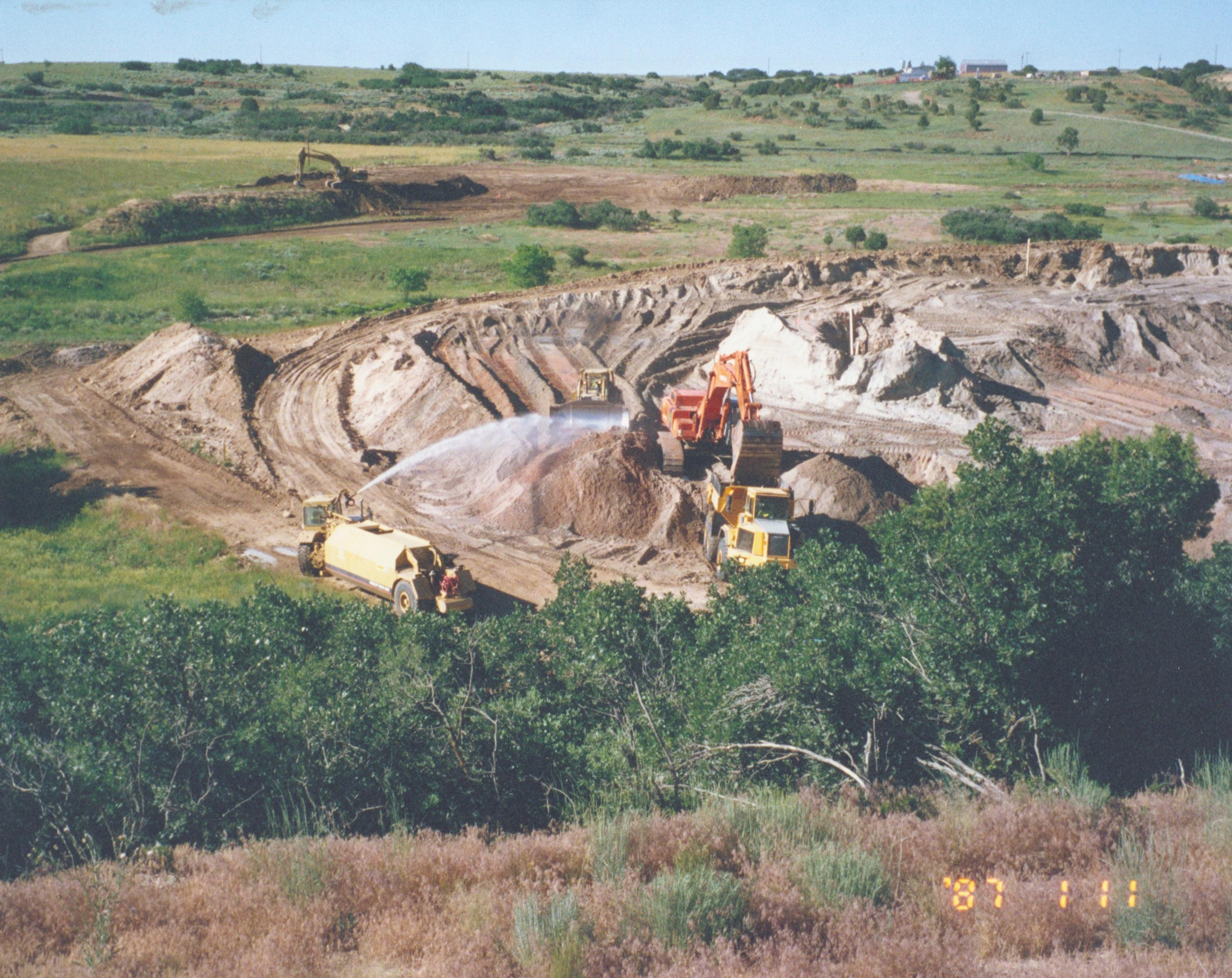 Excavation of the Carbonate Tailings Pile at the Monticello Mill Site for Transport to the Repository For more information or additional images, please contact 202-586-5251.